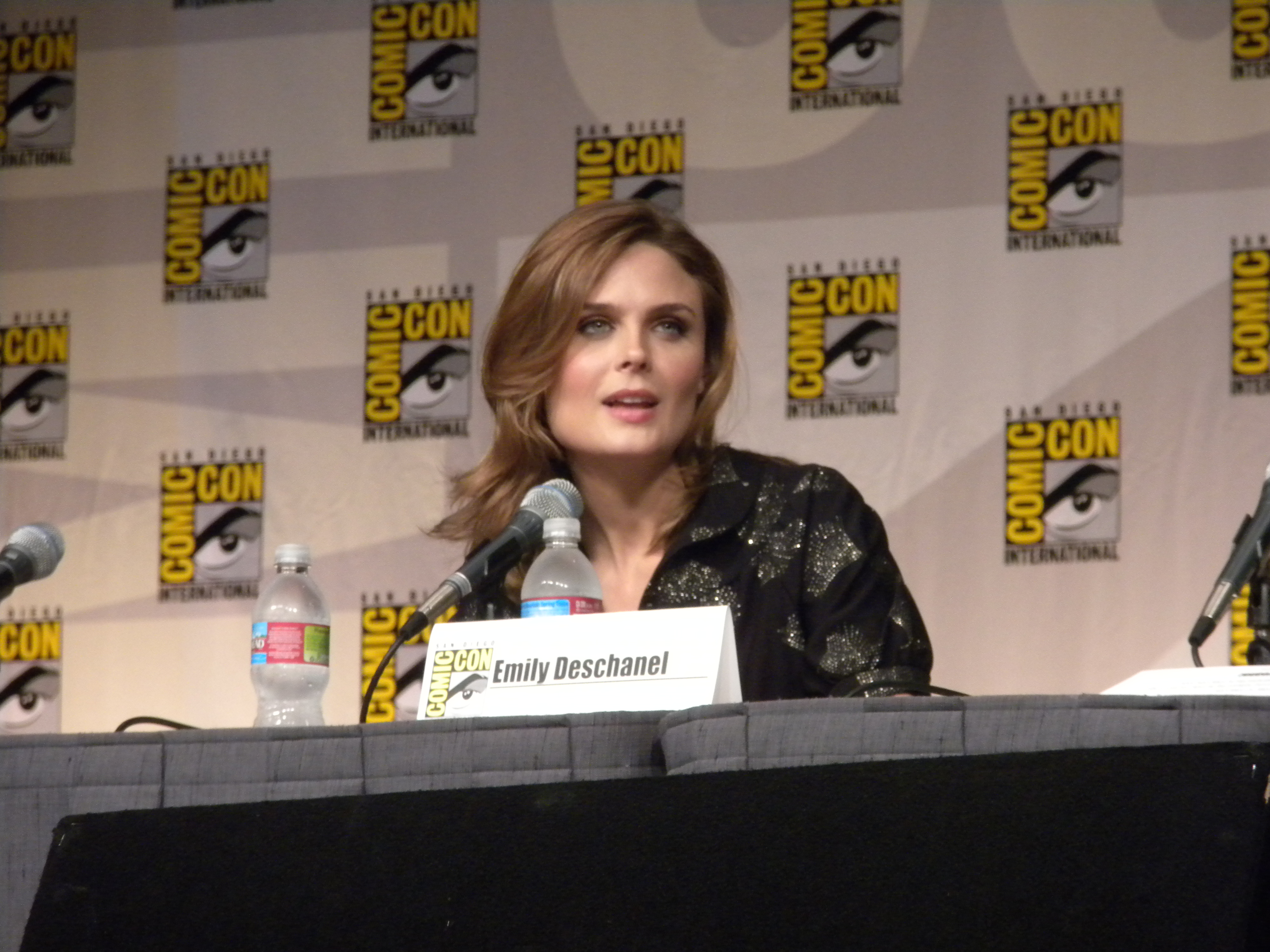 Actress Emily Deschanel – Comic-Con 2009 - "Bones" panel - Emily Deschanel - San Diego, Calif. - July 24, 2009.